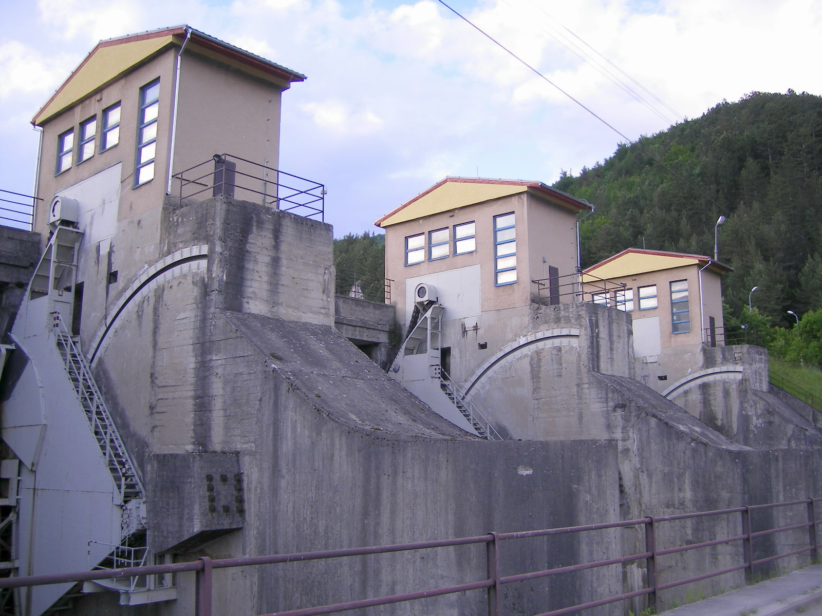 Krpeľany - hydroelectric powerplant on the Váh River